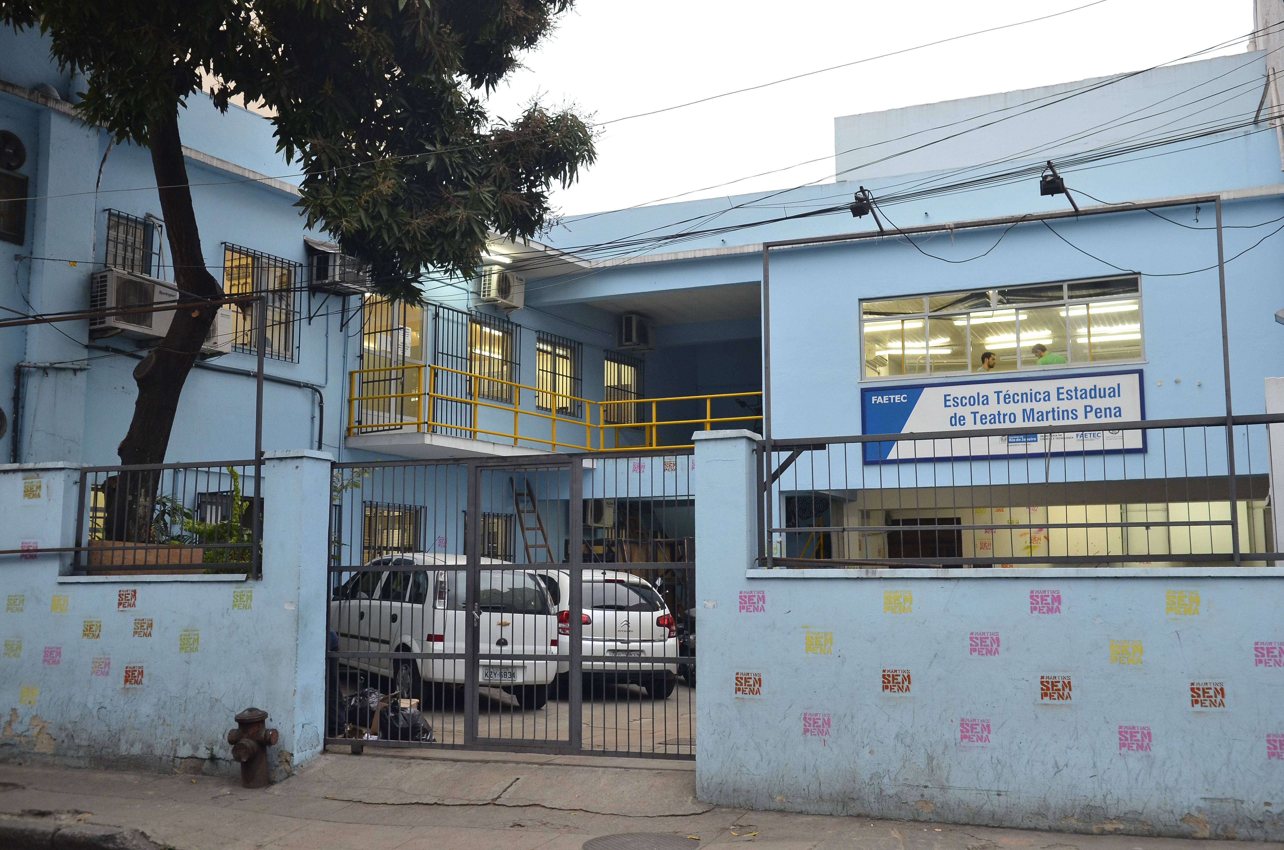 Photo by Fernando Frazão/Agência Brasil CCBY3.0